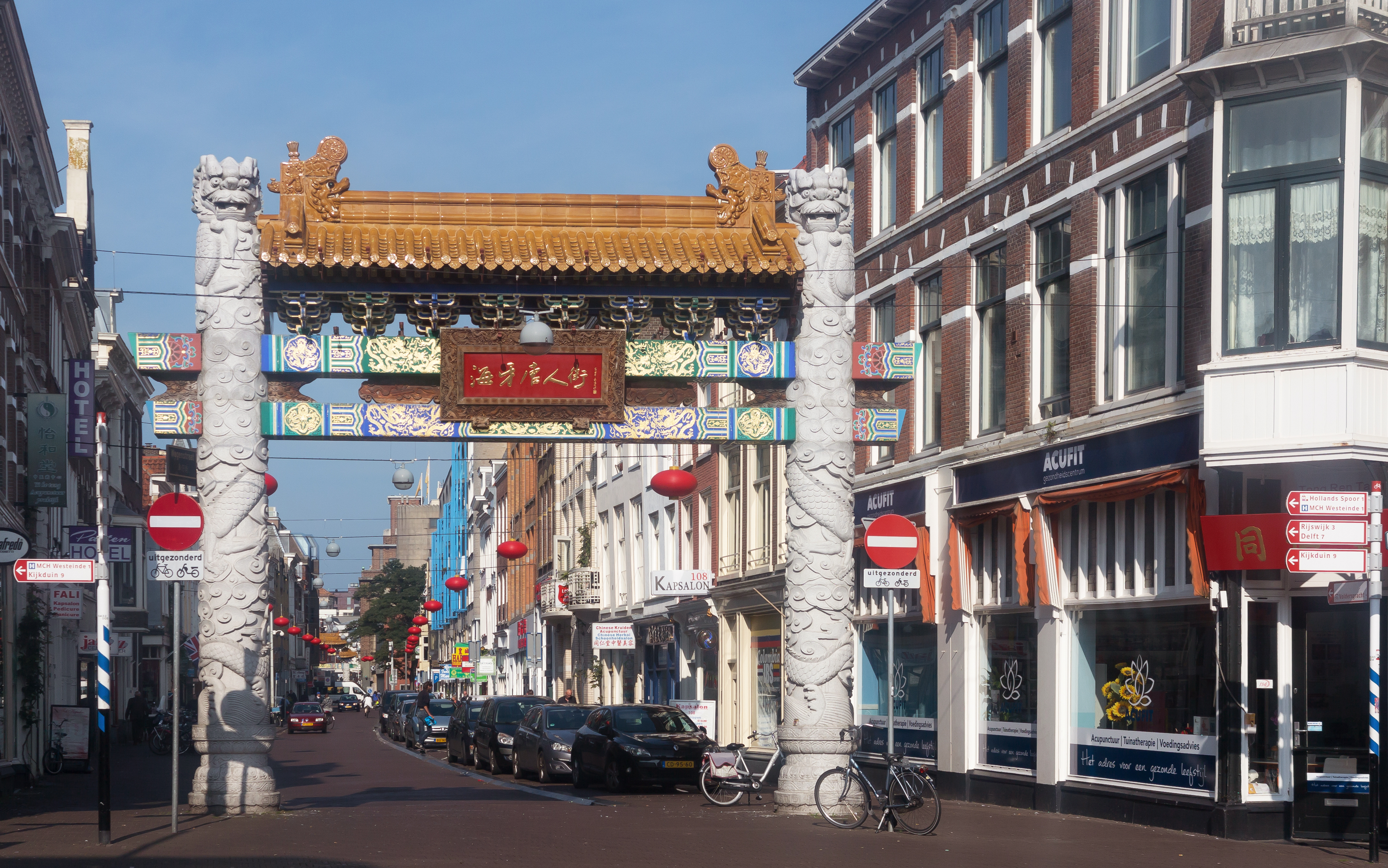 The Hague-Chinatown, street view: Wagenstraat-Stille Veerkade-Amsterdamse Veerkade